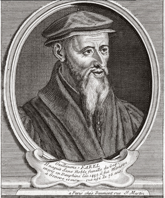 William Farel